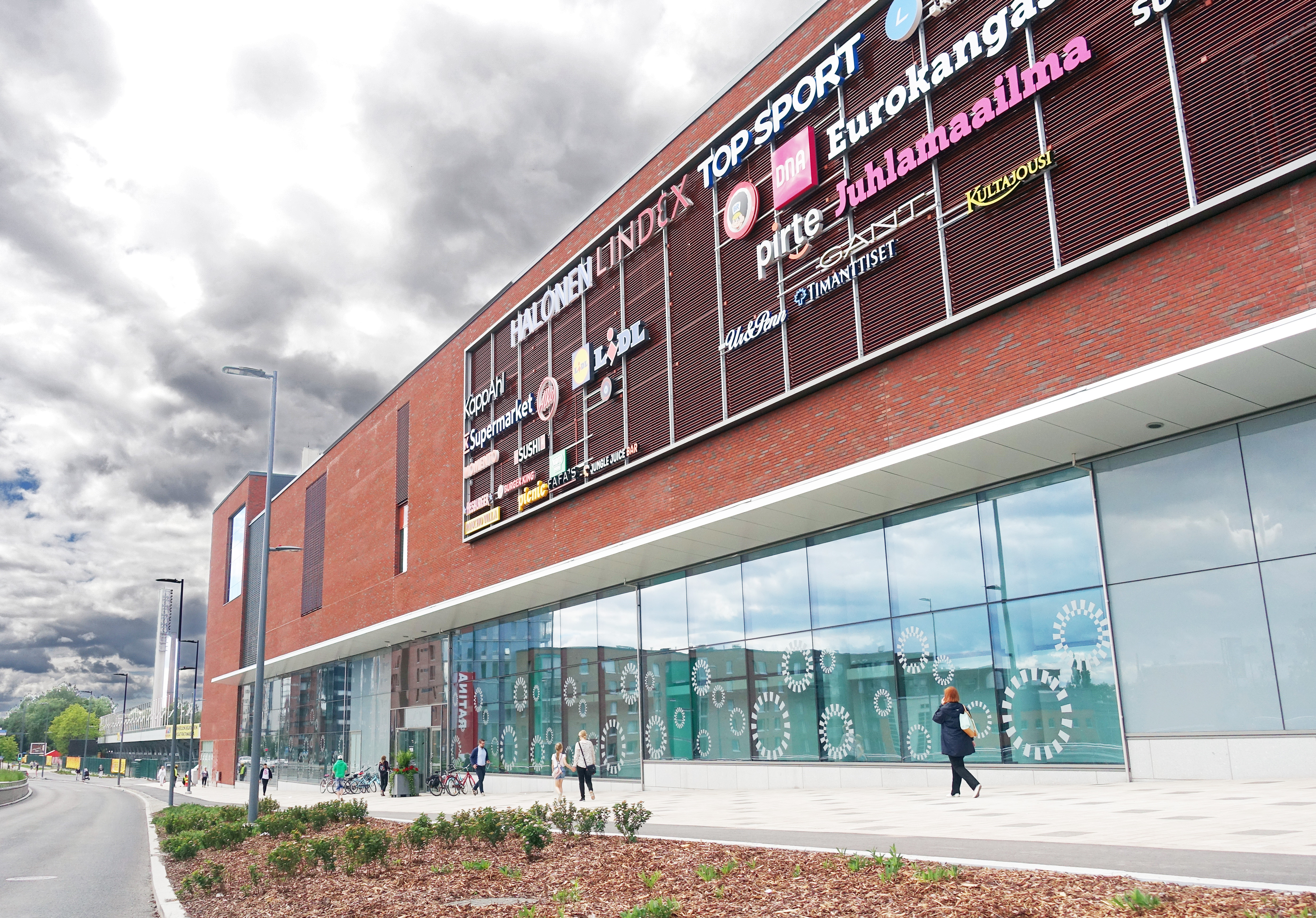 Tampere, Finland.